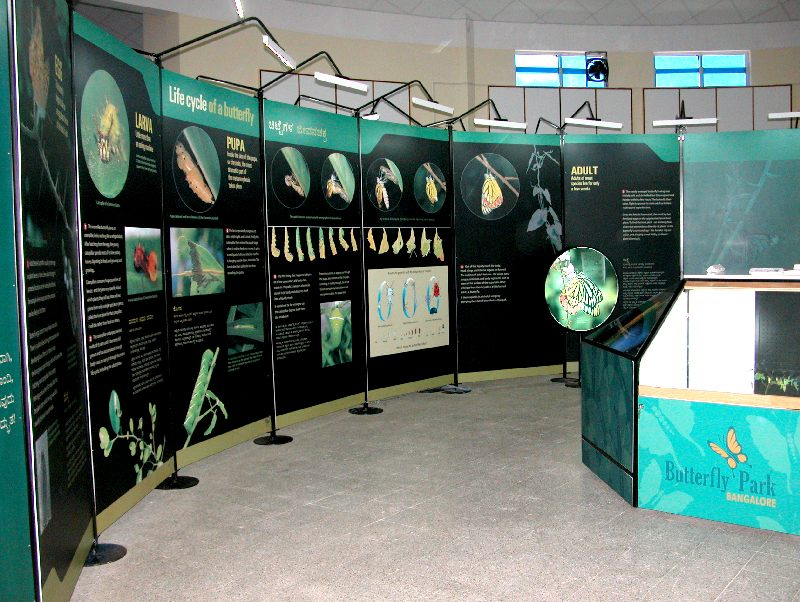 Butterfly Park Bangalore @ Interpretation Center